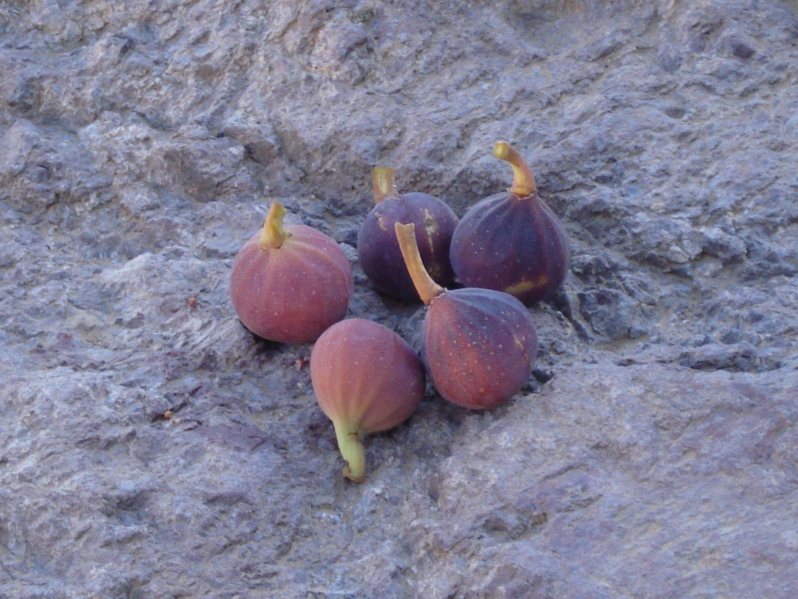 Anjeer.a mountain desert forute